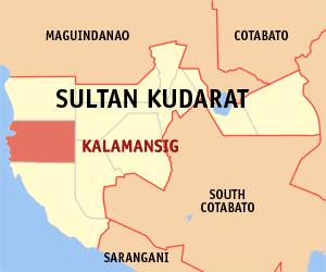 Map of the Sultan Kudarat showing the location of Kalamansig